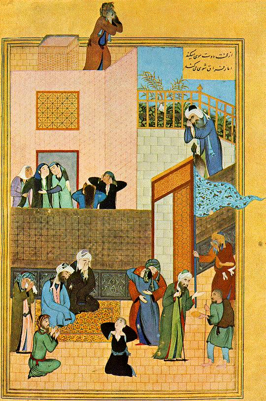 Mourners at the funeral of Majnun Probably painted by Shaykh Zadeh From a Khamsa of Nizami, 1494 in Herat